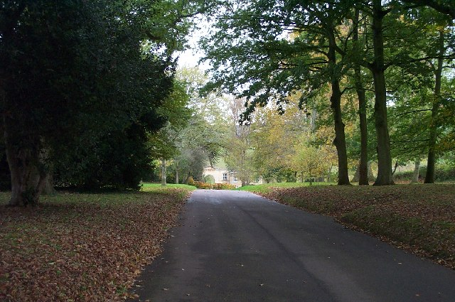 Sandhill Park. The grounds of the old house are partly occupied by a modern housing development but the driveway is still flanked by mature trees. The archway seen in the distance is the entrance off the B3224.